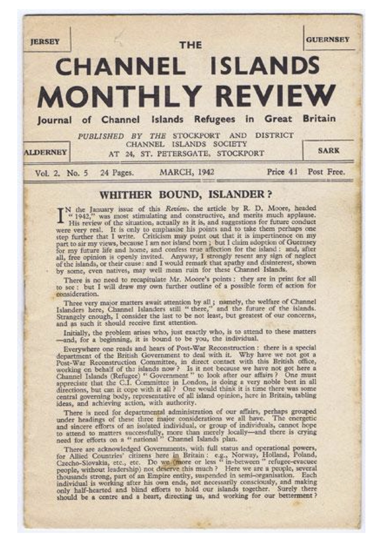 Volume 2 No 5, March 1942 Channel islands Monthly Review by Stockport and District Channel Islands Society